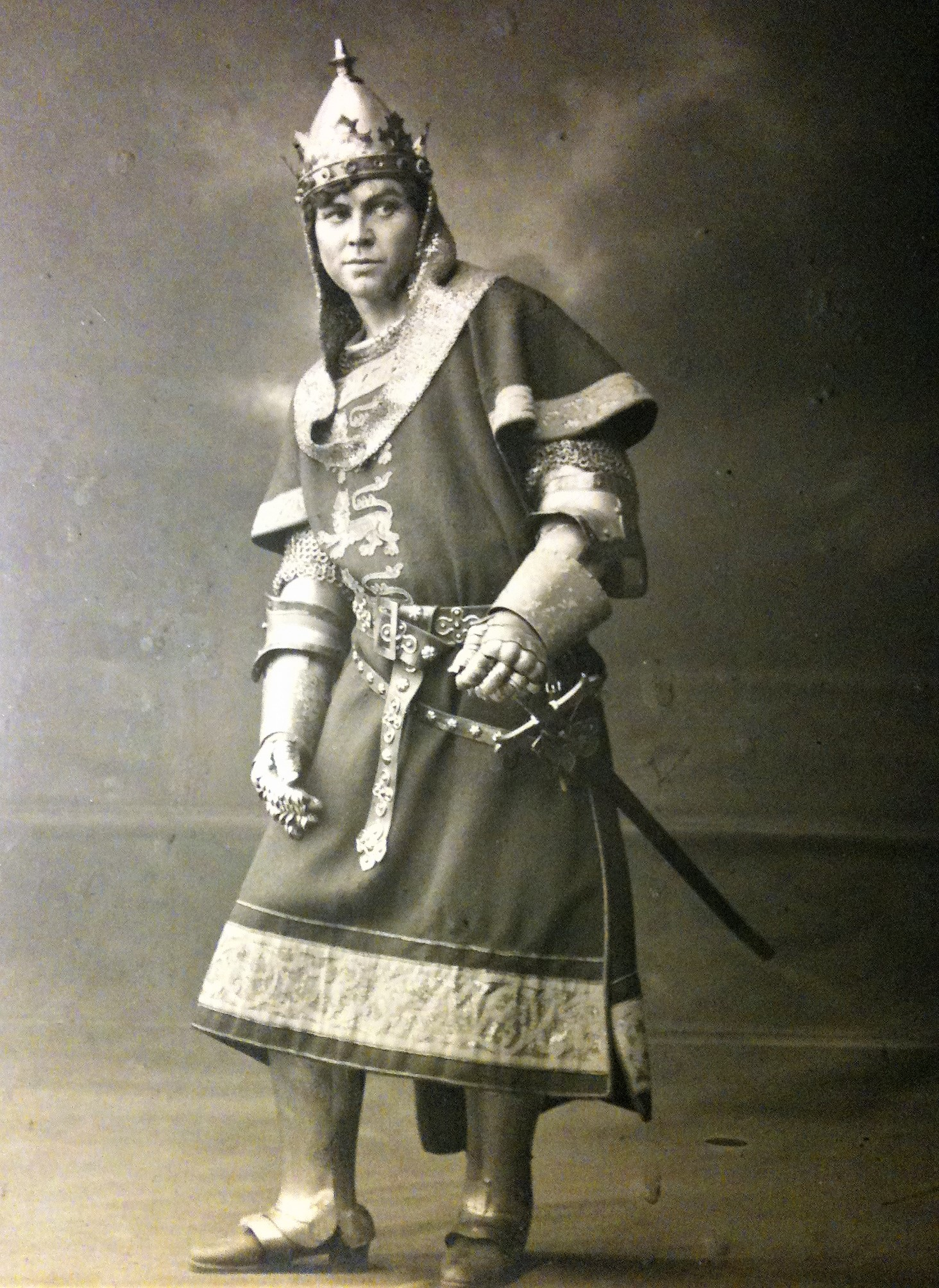 Poul Wiedemann as King Erik in Heise's opera "Drot og Marsk". Royal Danish Theatre 1919